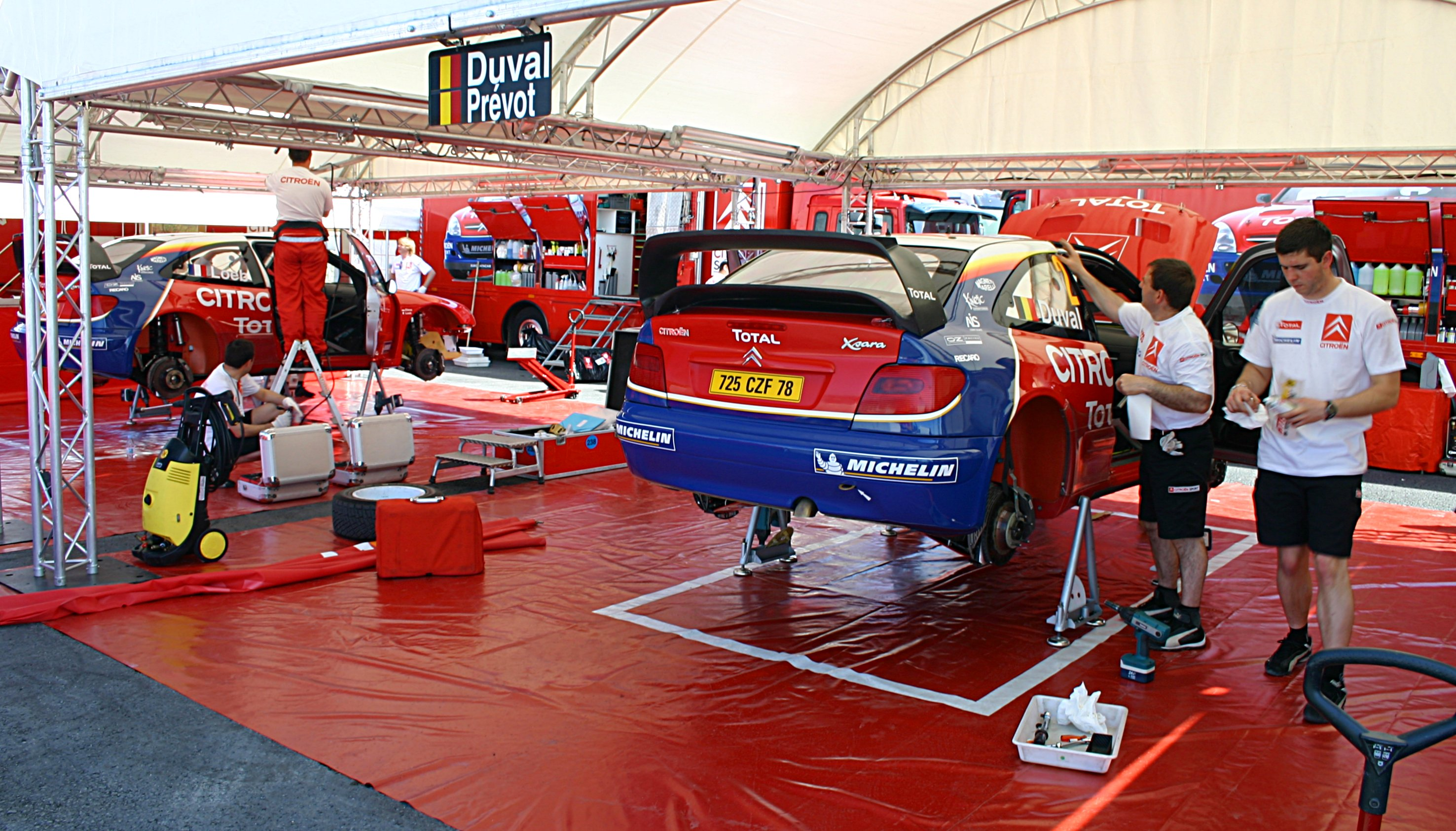 Citroën Total World Rally Team at the 2005 Cyprus Rally.